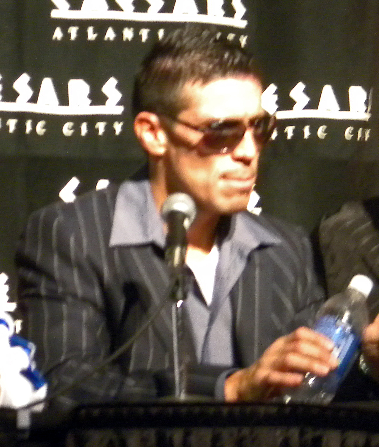 Sergio Gabriel Martínez at a press conference in Boardwalk Hall in Atlantic City. (cropped)